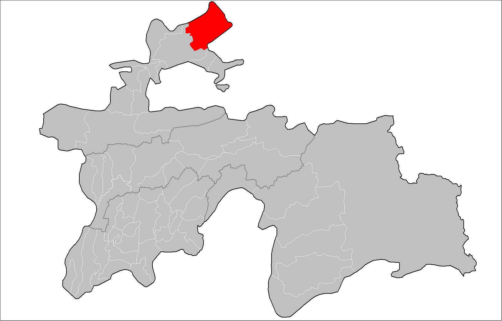 Location of Asht District in Tajikistan